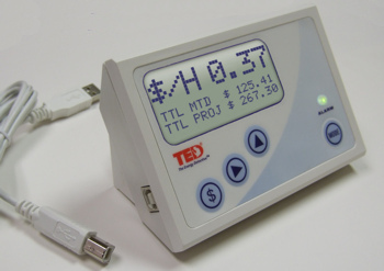 TED Model 1001